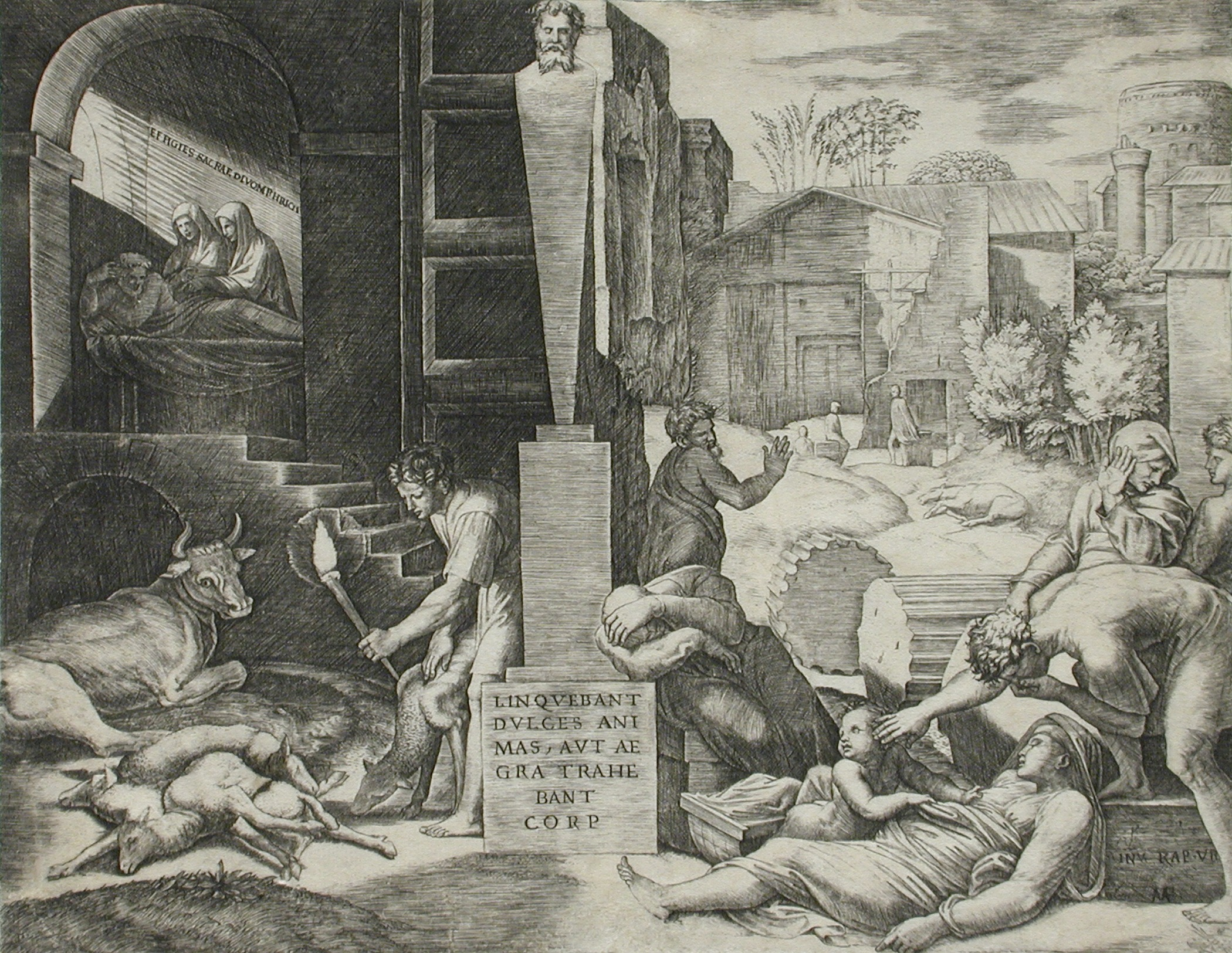 Italy, circa 1515-1516 Prints; engravings Engraving Sheet: 7 3/4 x 9 13/16 in. (19.69 x 24.92 cm) Mary Stansbury Ruiz Bequest (M.88.91.211) Prints and Drawings